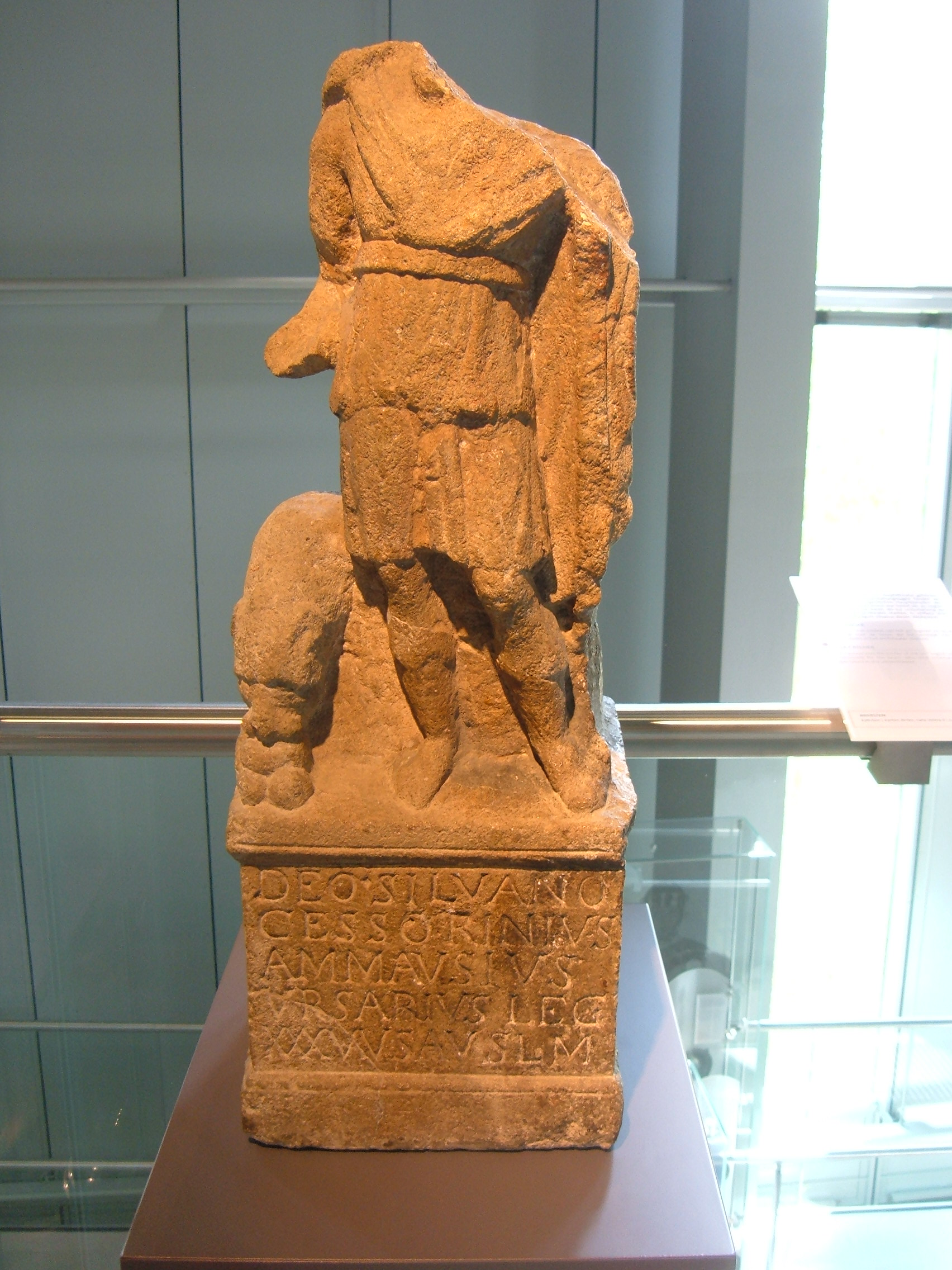 The statue of Silvanus, ordered as a votive, Archeological Park, Xanten. Inscription reads: (To the) God Silvanus. Cessorinius Amousius, bearcatcher of Legio XXX Ulpia Victrix (under the command of) Severianus Alexandrianus made good on his oath, freely and deservedly.